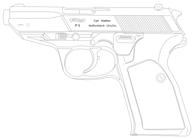 Semi-automatic pistol Walther P5